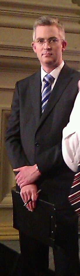 Sky News Australia political editor David Speers in the background behind Tony Abbott at a Carbon Tax Forum addressed by Opposition Leader Tony Abbott, Customs House, Brisbane, Australia. Cropped from original.